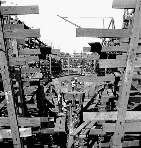 Women shipyard workers bolters-up work on a victory cargo ship in a Vancouver shipyard